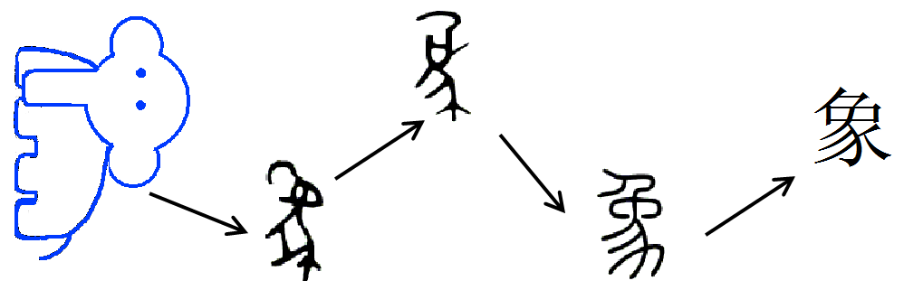 Evolution of the sinogram xiàng